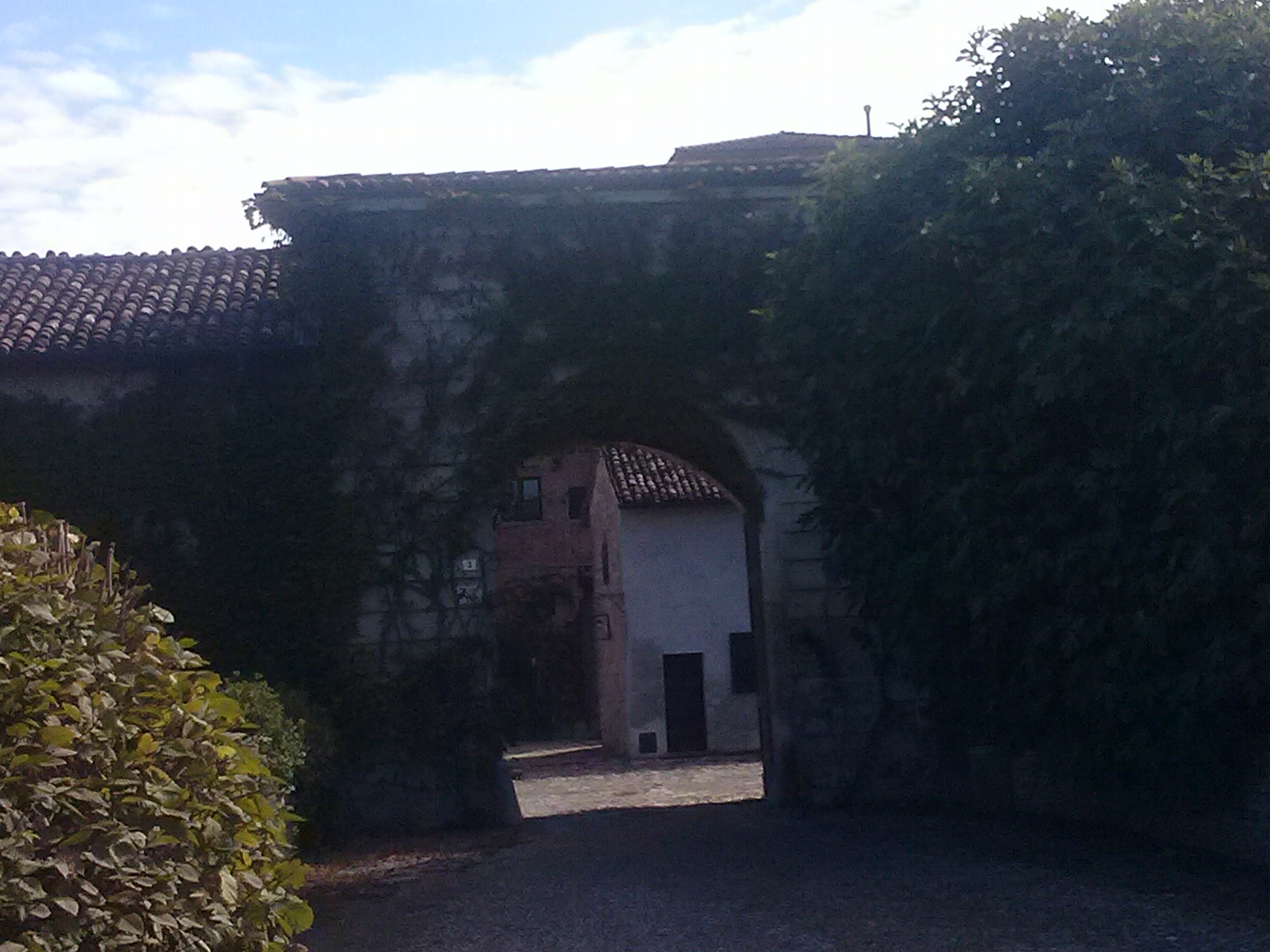 Entrance of the Castle of Castelbosco, near Campremoldo Sopra, municipality of Gragnano Trebbiense, Piacenza, Italy